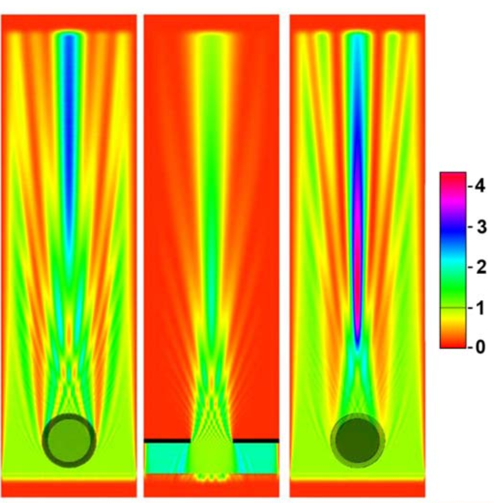 A plane wave scattering by nuclei of different architecture